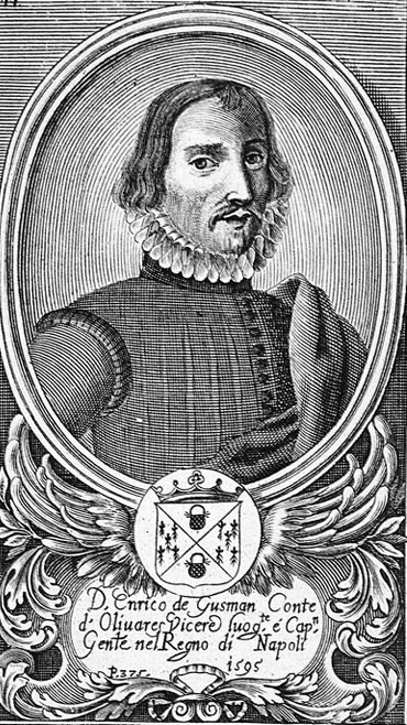 Enrique de Guzmán, 2nd Count of Olivares (1540-1607), viceroy of Naples